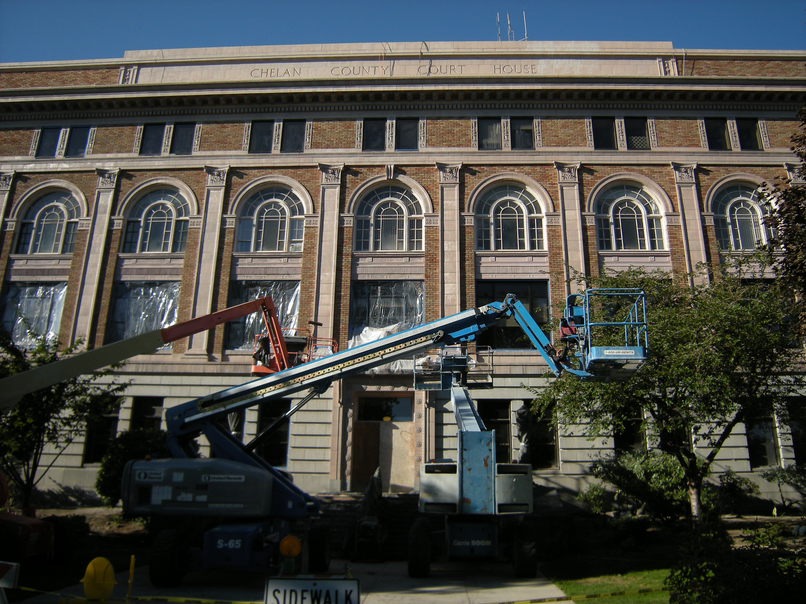 Chelan County Courthouse, Wenatchee, Washington.